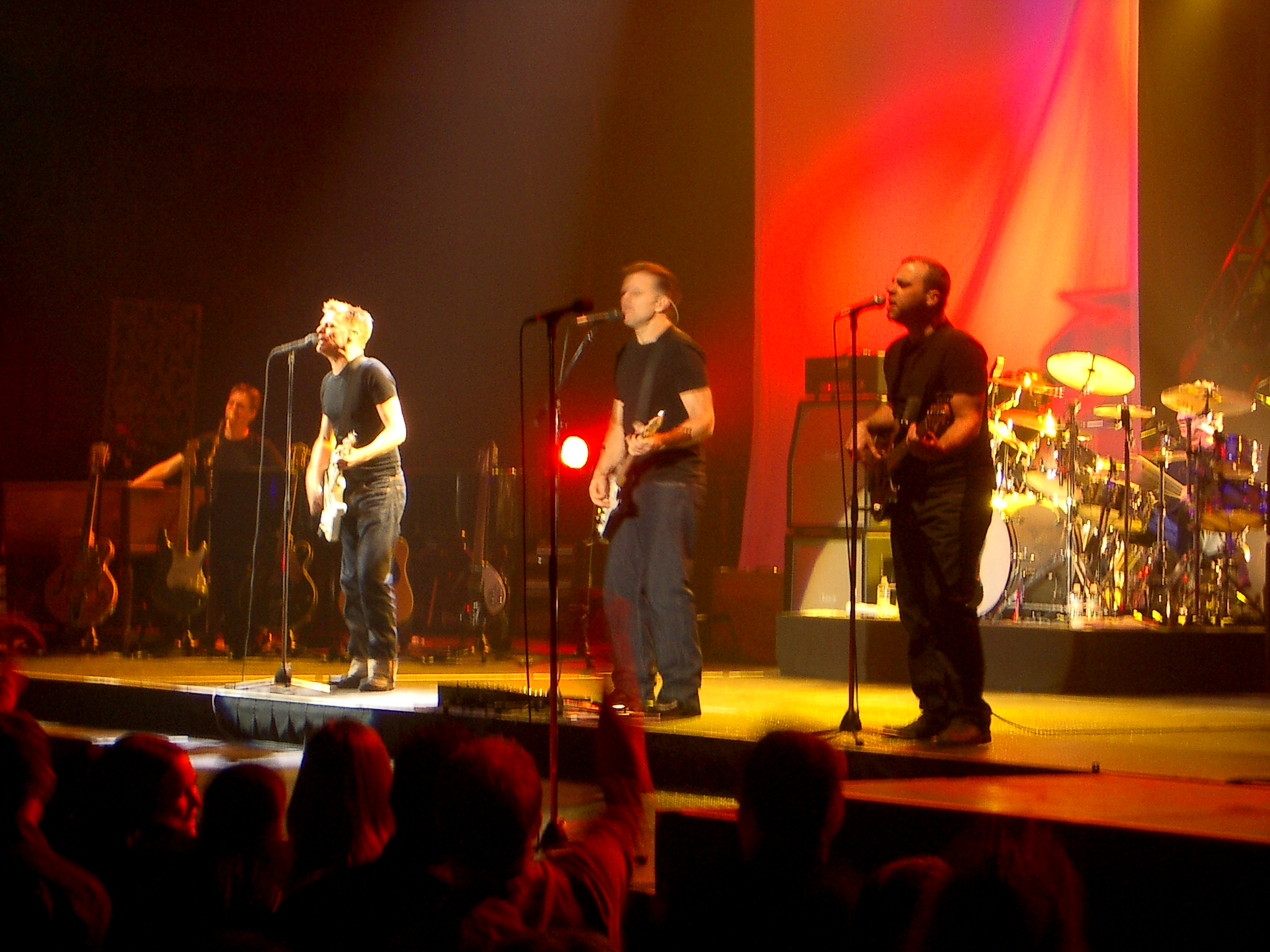 Bryan Adams live in Victoria, (British Columbia, Canada) in January 2006 Everybody up front!